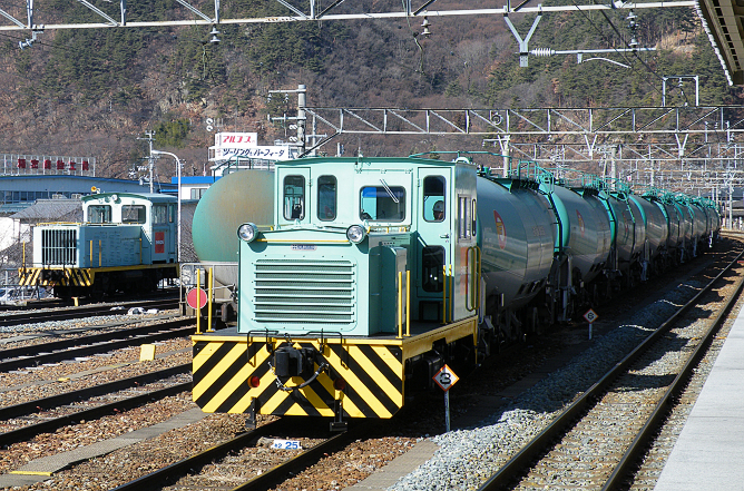 Oil freight train has arrived and is moved by ENEOS' 25t switcher.